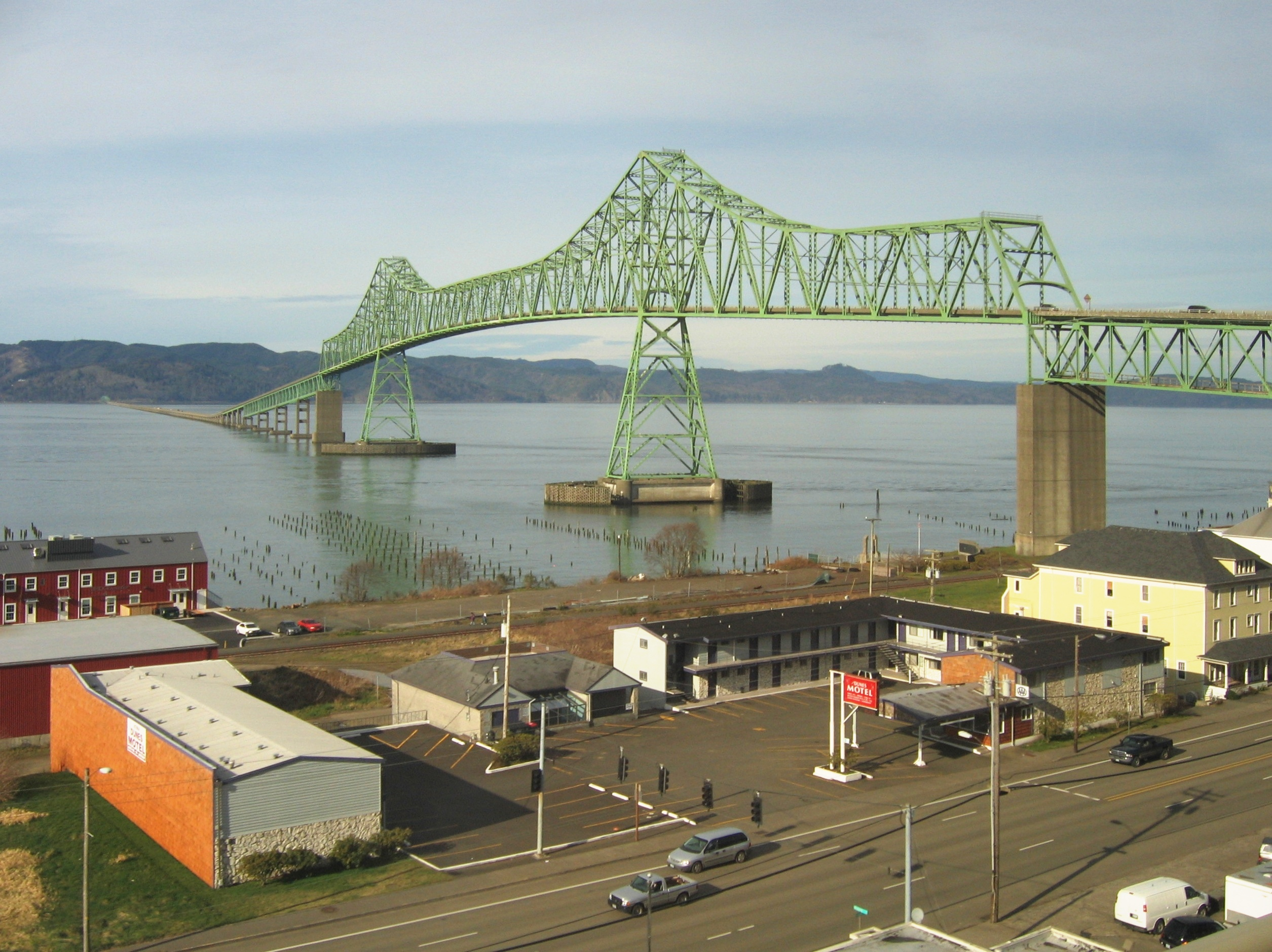 Photo of the Astoria-Megler Bridge from the South ramp. Architectural projection made with hugin.